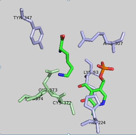 A cartoon of the relevant residues making up the active site in relation to PLP and the product, L-lysine. The residues in light blue (tyrosine, arginine, lysine, and histidine) belong to one monomer, while the residues in light green (cysteine, glutamic acid, and serine). Lysine forms a Schiff base with PLP, while histidine stabilizes the formation.